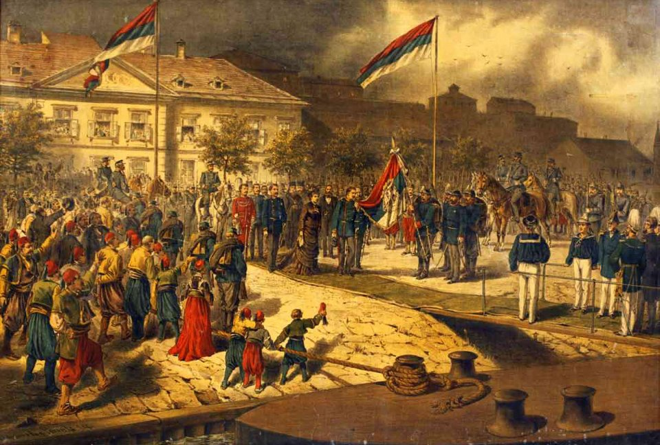 King Milan Obrenović prepares to depart to war, 1876.